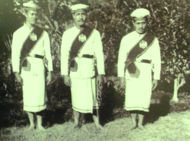 Polizisten um 1900 in deutscher Uniform auf Samoa